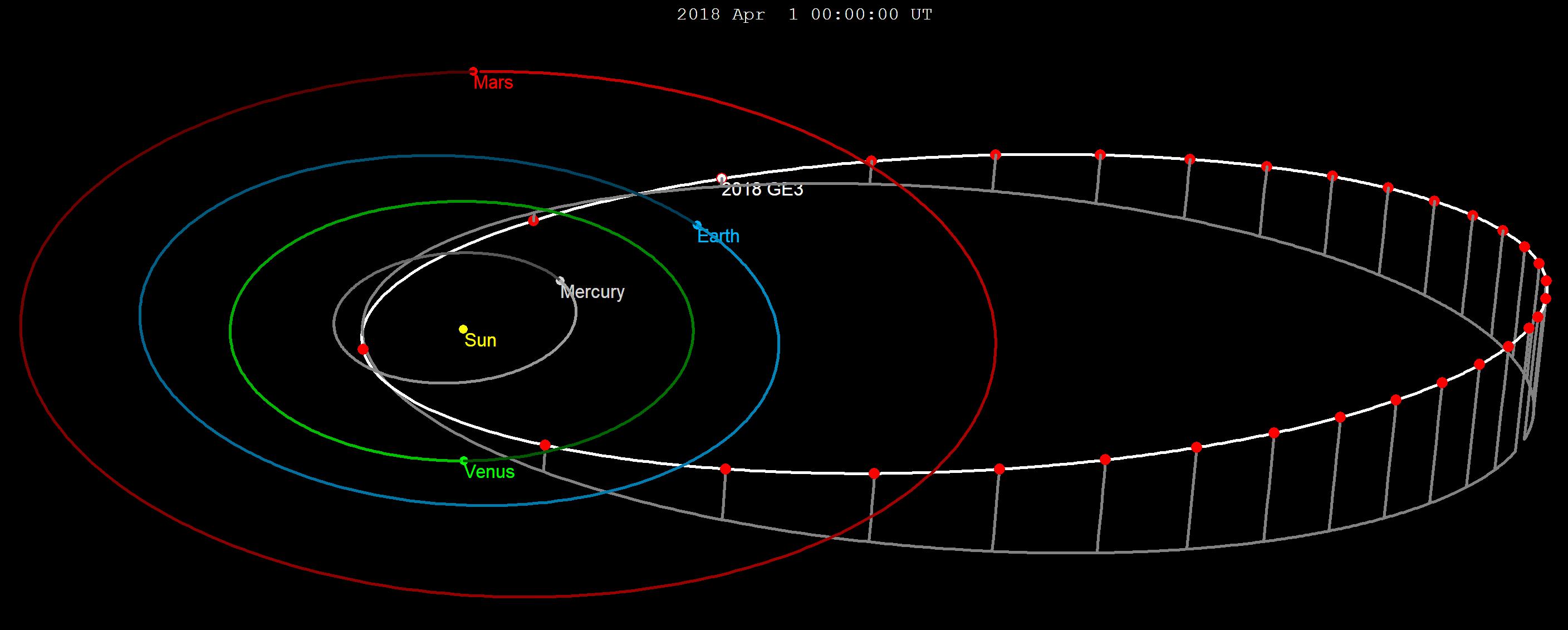 Orbital diagram of near-Earth asteroid 2018 GE3 on 1 April 2018